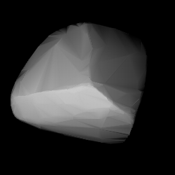 3D convex shape model of 673 Edda, computed using light curve inversion techniques. J. Hanuš, J. Ďurech, M. Brož, B. D. Warner (June 2011). "A study of asteroid pole-latitude distribution based on an extended set of shape models derived by the lightcurve inversion method". Astronomy and Astrophysics 530: A134. ISSN 0004-6361. arXiv